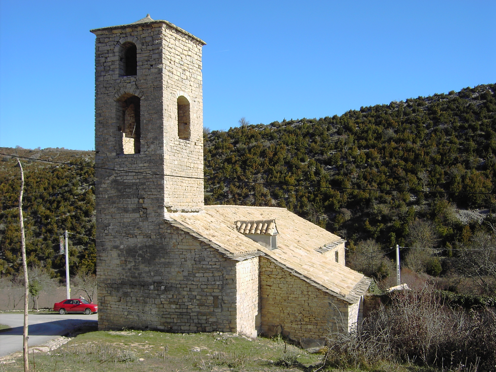 an:Sasa de Surta belonging to the municipality of an:l'Aínsa-Sobrarbe, Huesca, Spain.